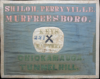 Hardee Battle Flag pattern, Cleburne's Division 1864 issue; Cotton with dark green, black and red paint, 30" x 36"; War Department Capture Number 231, Old State House Museum Collection. Note: Key's Battery was captured with most of the rest of Daniel Govan's Arkansas brigade, including the 1st Arkansas Infantry Regiment, in the fighting at Jonesboro, Georgia, on 1 September 1864. A light artillery battery, the unit was organized at Helena in 1861, with John Calvert as captain and Thomas Key as first lieutenant. After Shiloh, it became known as Key's Arkansas battery. It is consistent with the last two flags of the 1864 issue, and as a group they reinforce the observation that decorating was done at the brigade level at this point in the war. The crossed cannon are unusual on an artillery flag, as they generally honor capture of enemy guns by infantry. The honor may have been extended for silencing enemy guns in an exchange, but is unknown before 1864. Old State House Museum, Little Rock, Arkansas